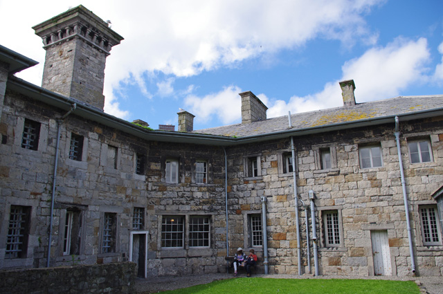 Beaumaris Gaol The gaol was built in 1829, expanded in 1867 and closed in 1878. It is now a museum. It is known for its treadmill (out of picture to the right), which was actually used to pump water to the top of the building.